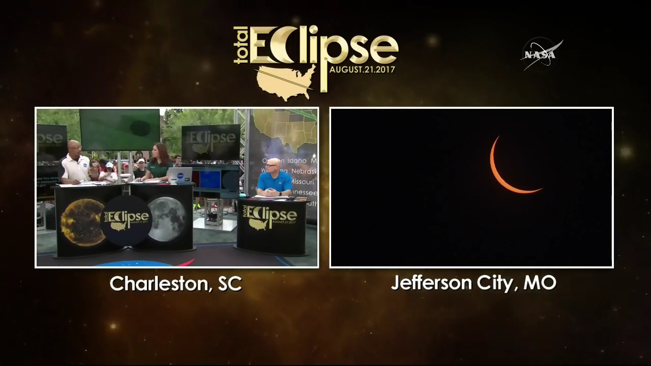 NASA TV coverage of 21 August 2017 eclipse